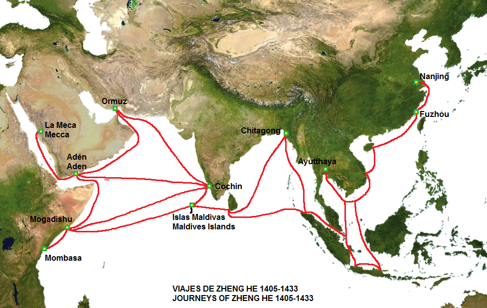 Map of the routes of Zheng He